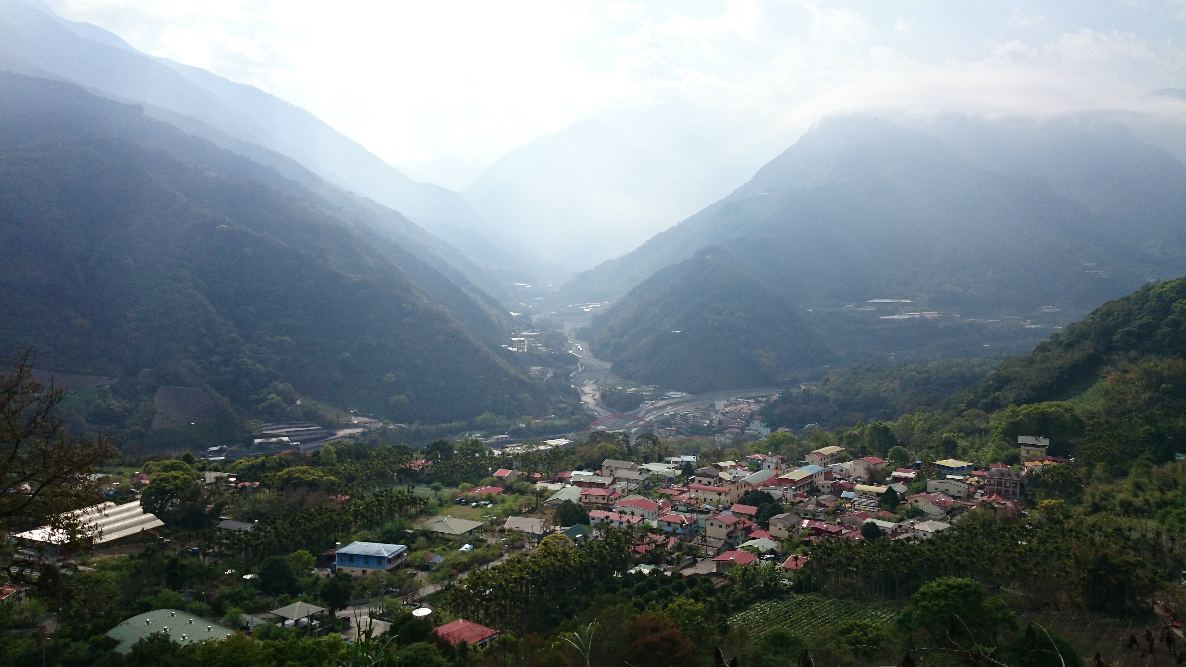 Wanghsiang with mountain view.